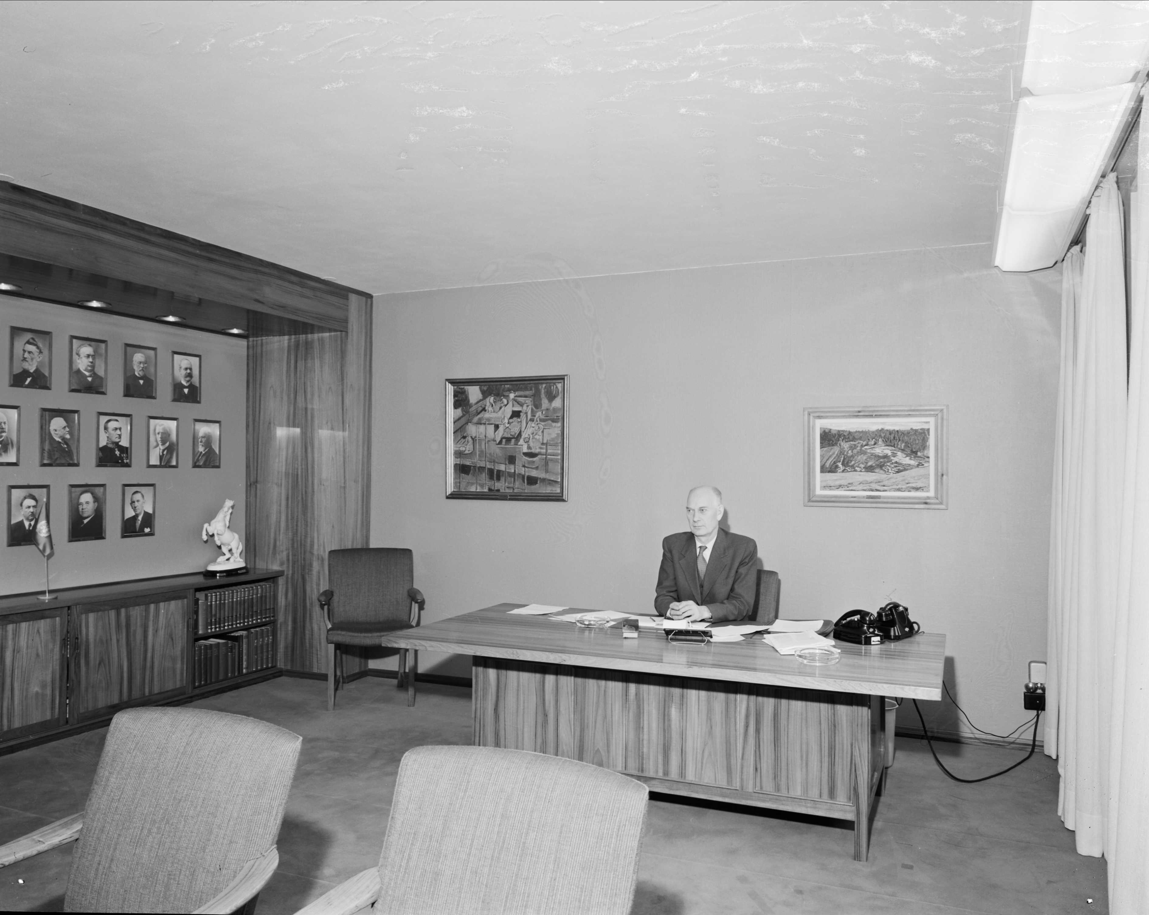 Government office tower in Oslo by architect Erling Viksjø. Prime minister Einar Gerhardsen in his office on 2 February 1959.